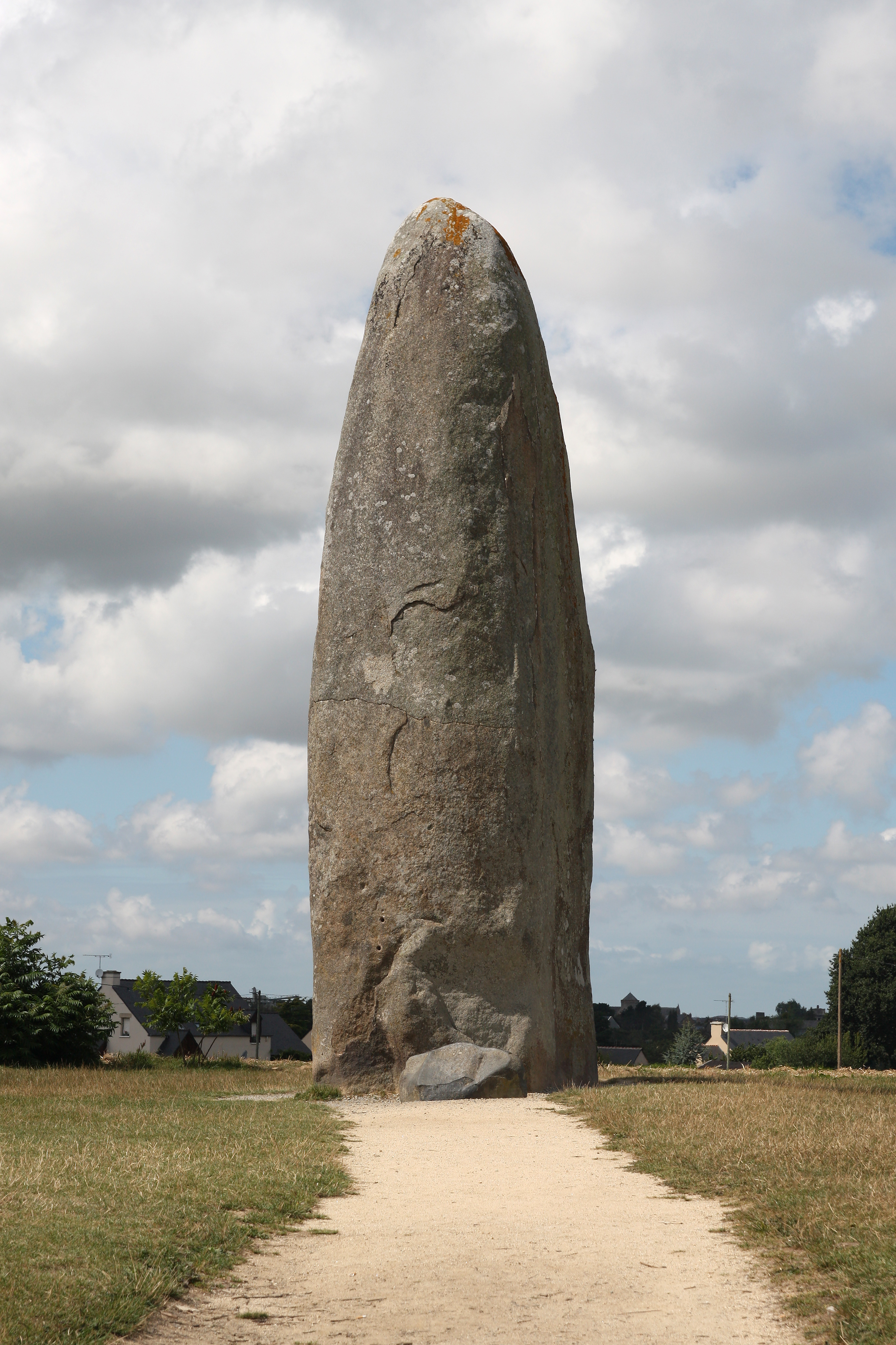 The Menhir de Champ-Dolent, largest menhir in Brittany (Size 10 m).